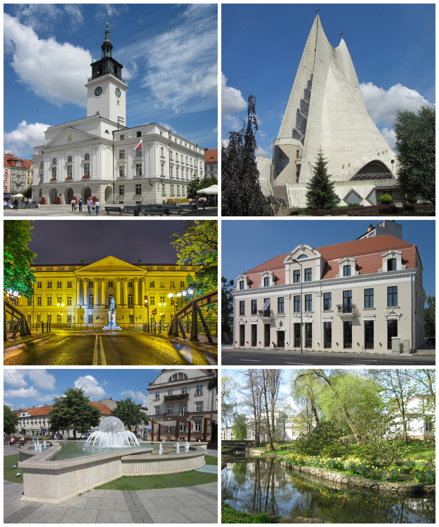 Kalisz